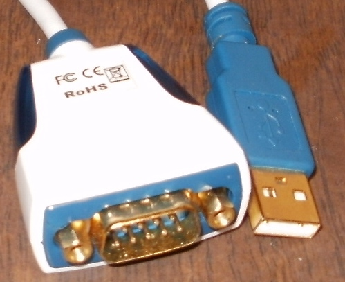 Virtual COM Port Hardware FTDI US-232R. FTDI US232R